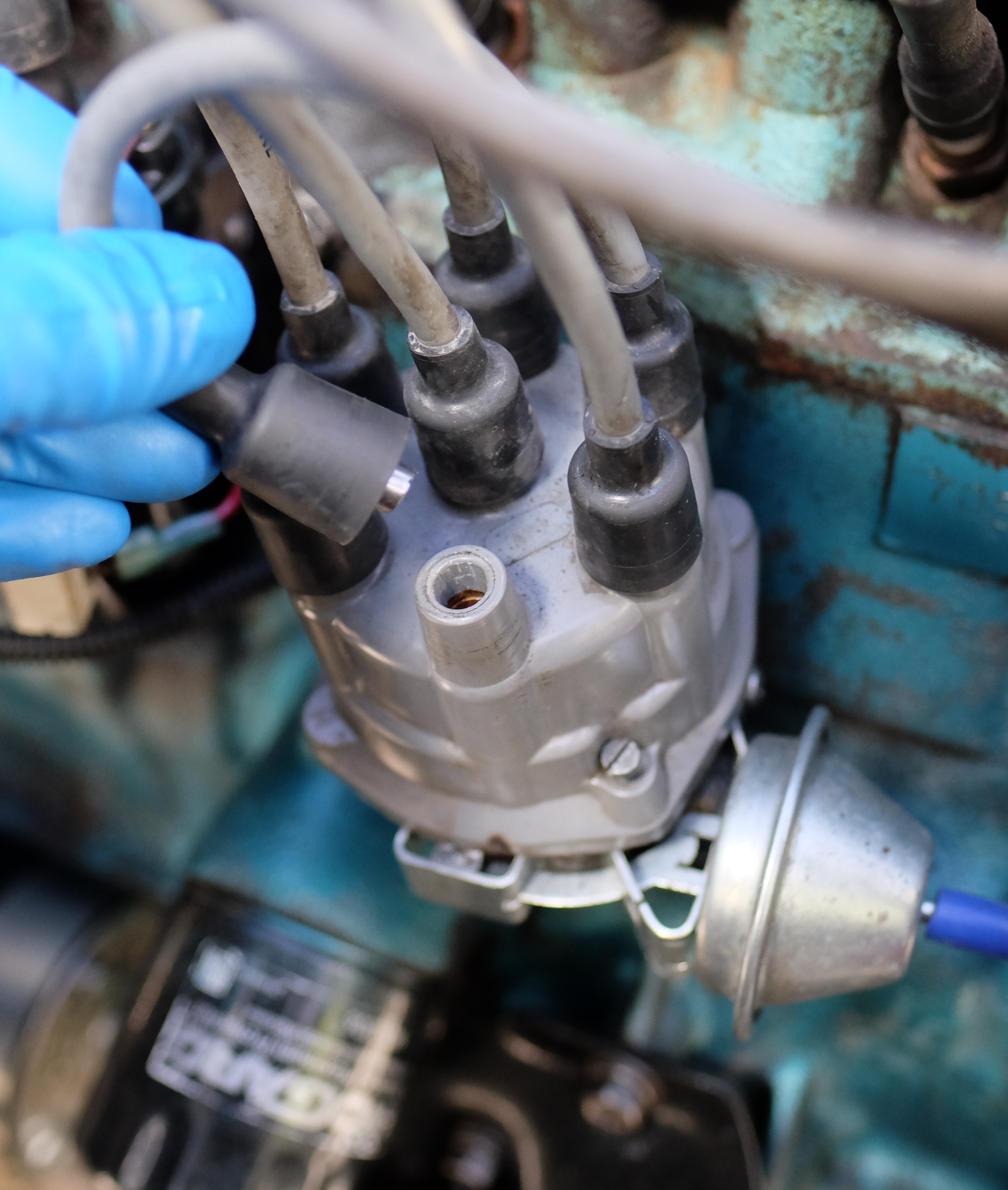 Distributor cap of 1974 Jeep CJ5 with 232 cu. in. (3.8L) AMC inline-6 engine.